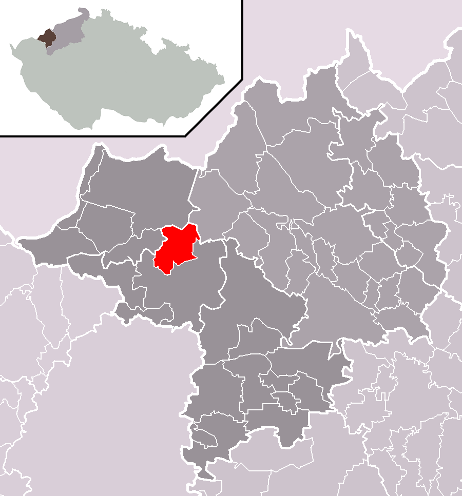 Location of Domašín municipality within Chomutov District and administrative area of Kadaň as a Municipality with Extended Competence.